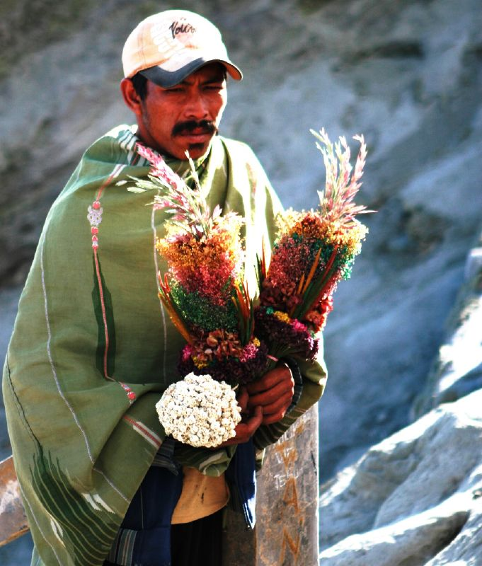 Selling dried flowers, mostly Javanese Edelweiss, for tourists at Mount Bromo.